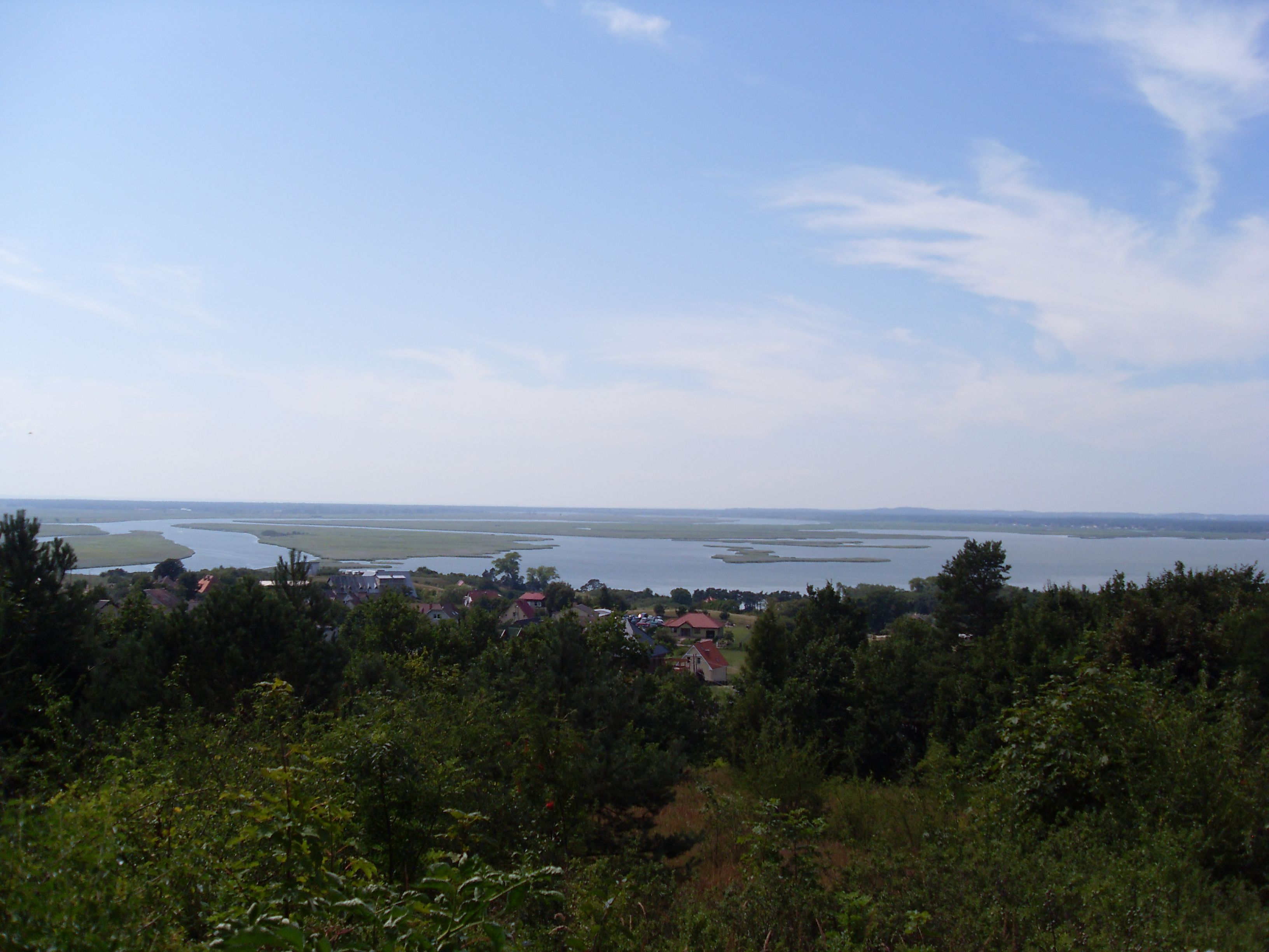 The Swina delta, view from the East; in the foreground the village Lubin